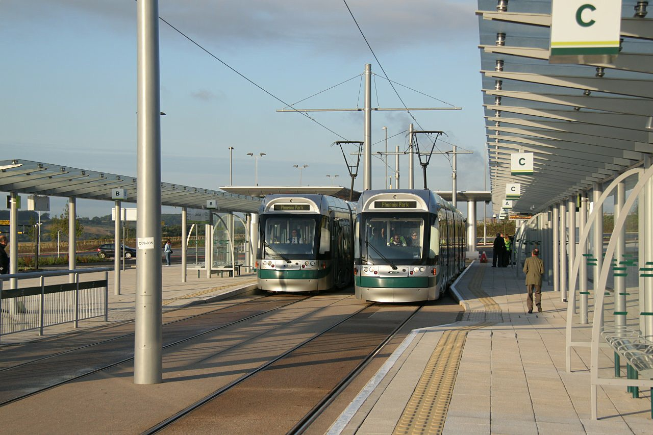 Clifton Park and Ride terminus. Two trams wait for departure on the morning of the first day of public service.